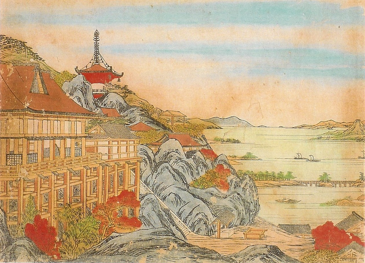 print of Ishiyama-dera mirrored left-right